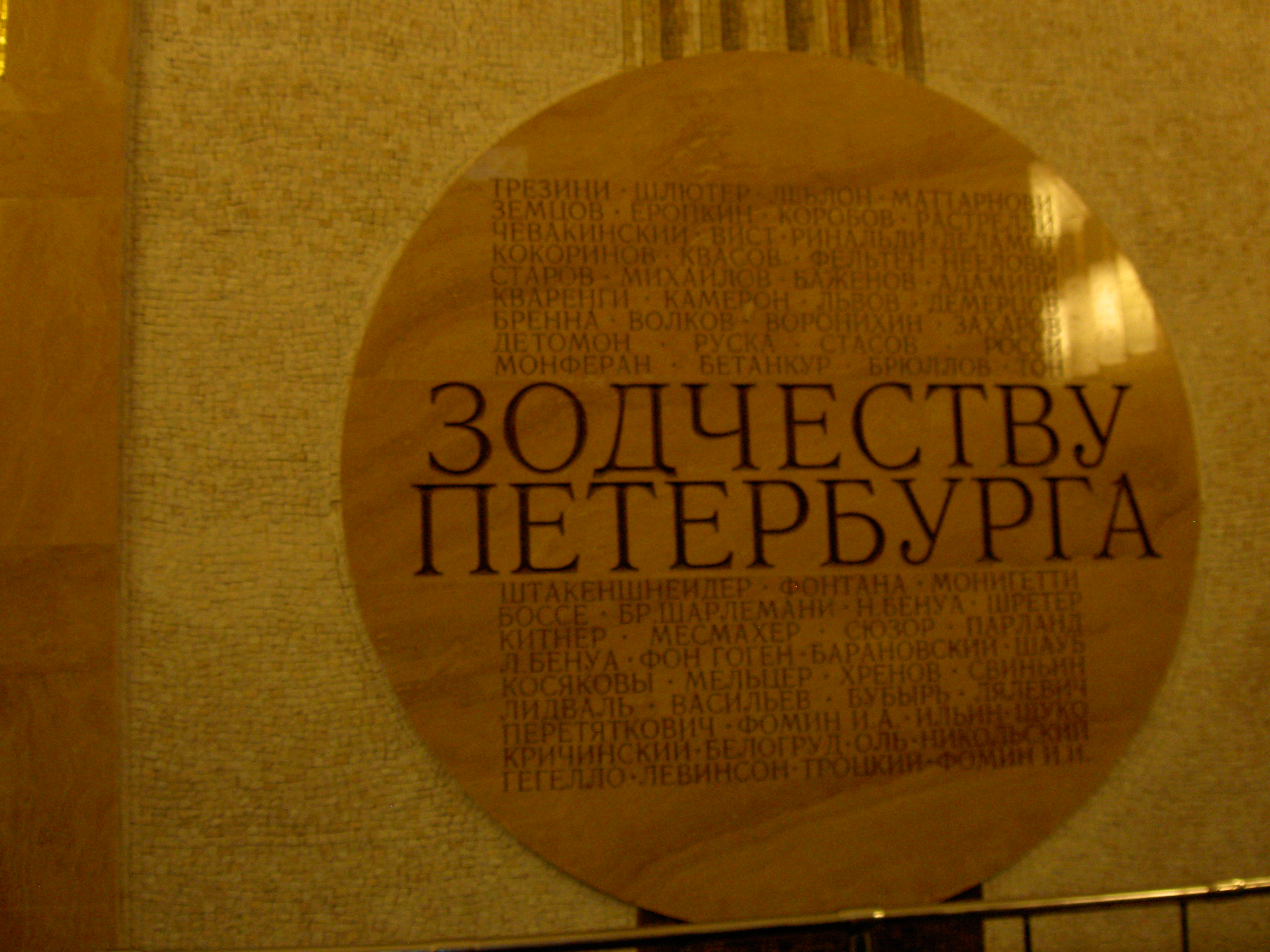 Spasskaya metrostation.